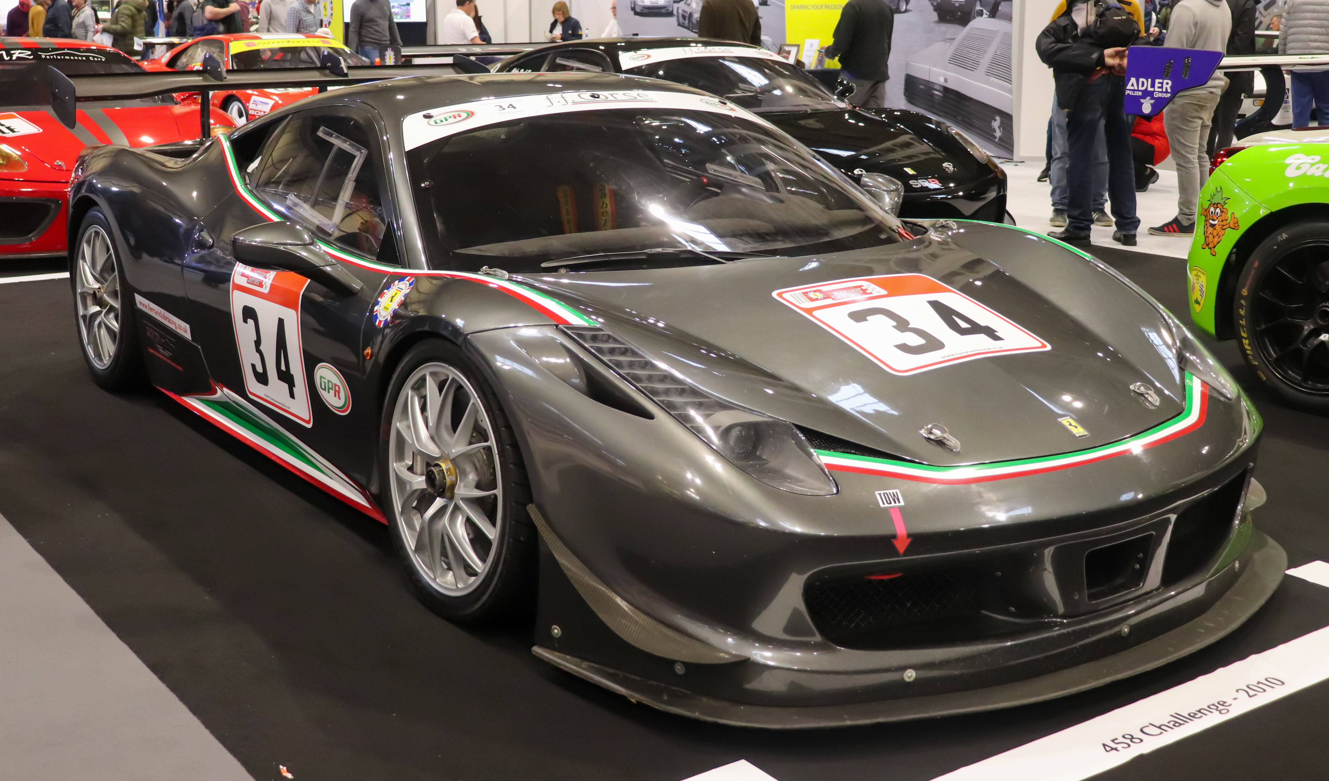 2010 Ferrari 458 Challenge Front Taken at the NEC Classic Motor Show 2019